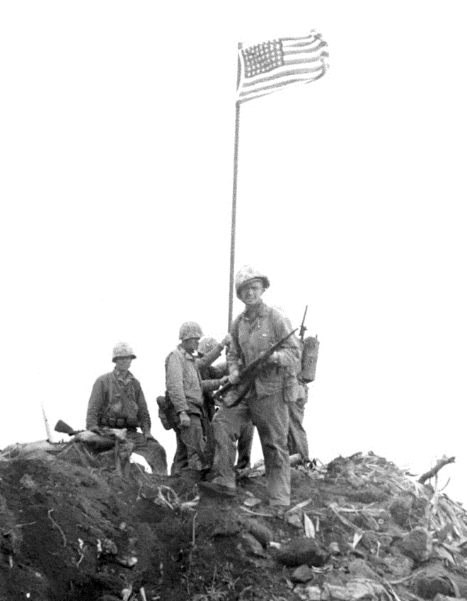 Detail of a photograph of the first flag-raising on Iwo Jima, showing Ernest Ivy Thomas Jr. in the foreground, facing the viewer. The subject of the photograph is identified in the article "Another View of the Iwo Flag Raisings" by Robert L. Sherrod, appearing in Fortitudine, Vol. X No. 3, Winter 1980–1981 (page 9)